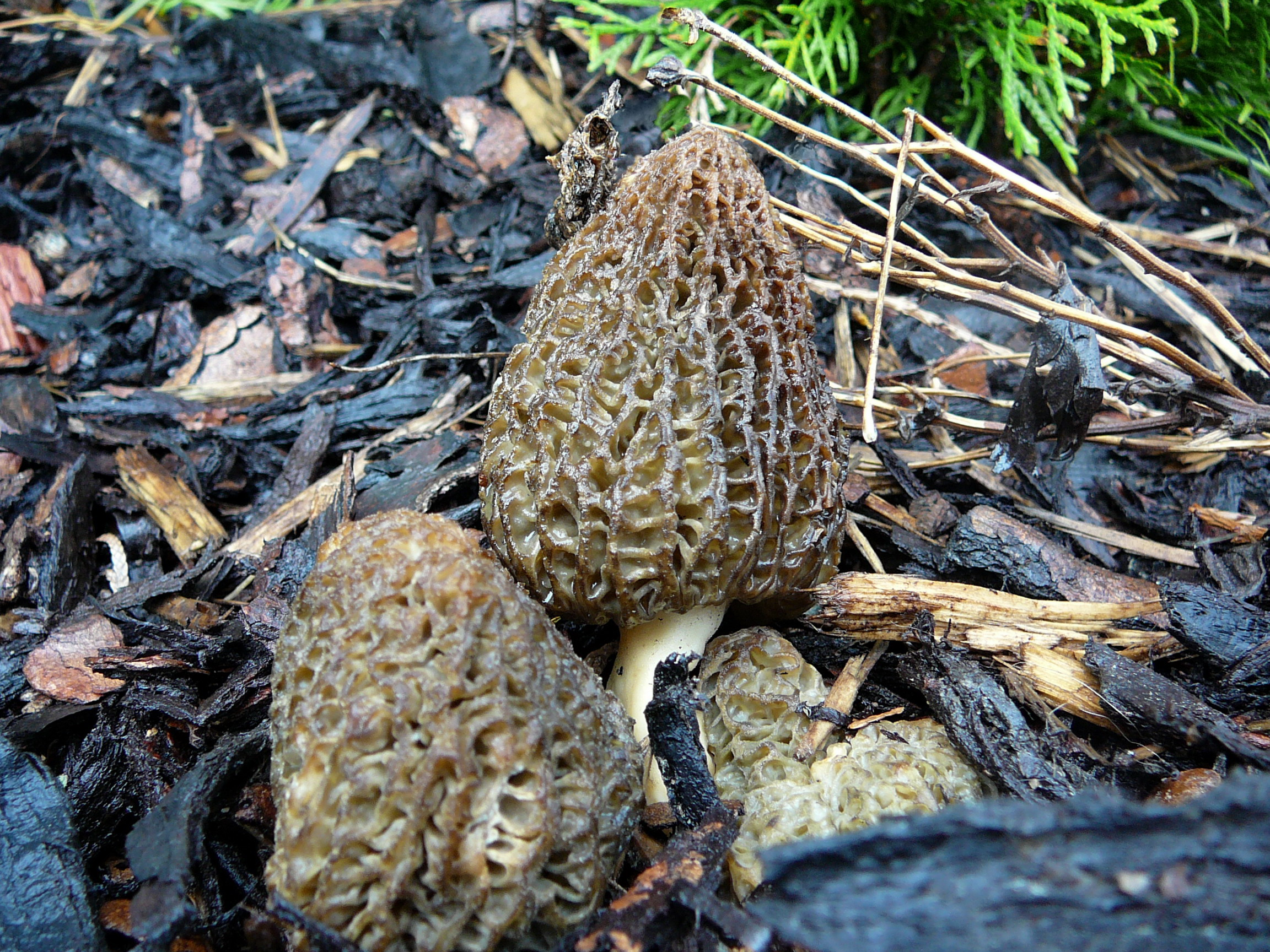 Morchella pragensis (or morchella hortensis) in a garden in Moravsky kras, Moravia, the Czech Repubublic.